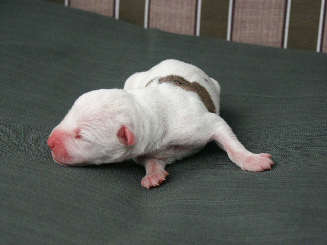 AmStaff Pup